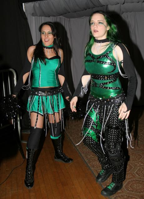 MsChif and Cheerleader Melissa before their tag team match against The Dangerous Angels in Shimmer Women Athletes Vol 17